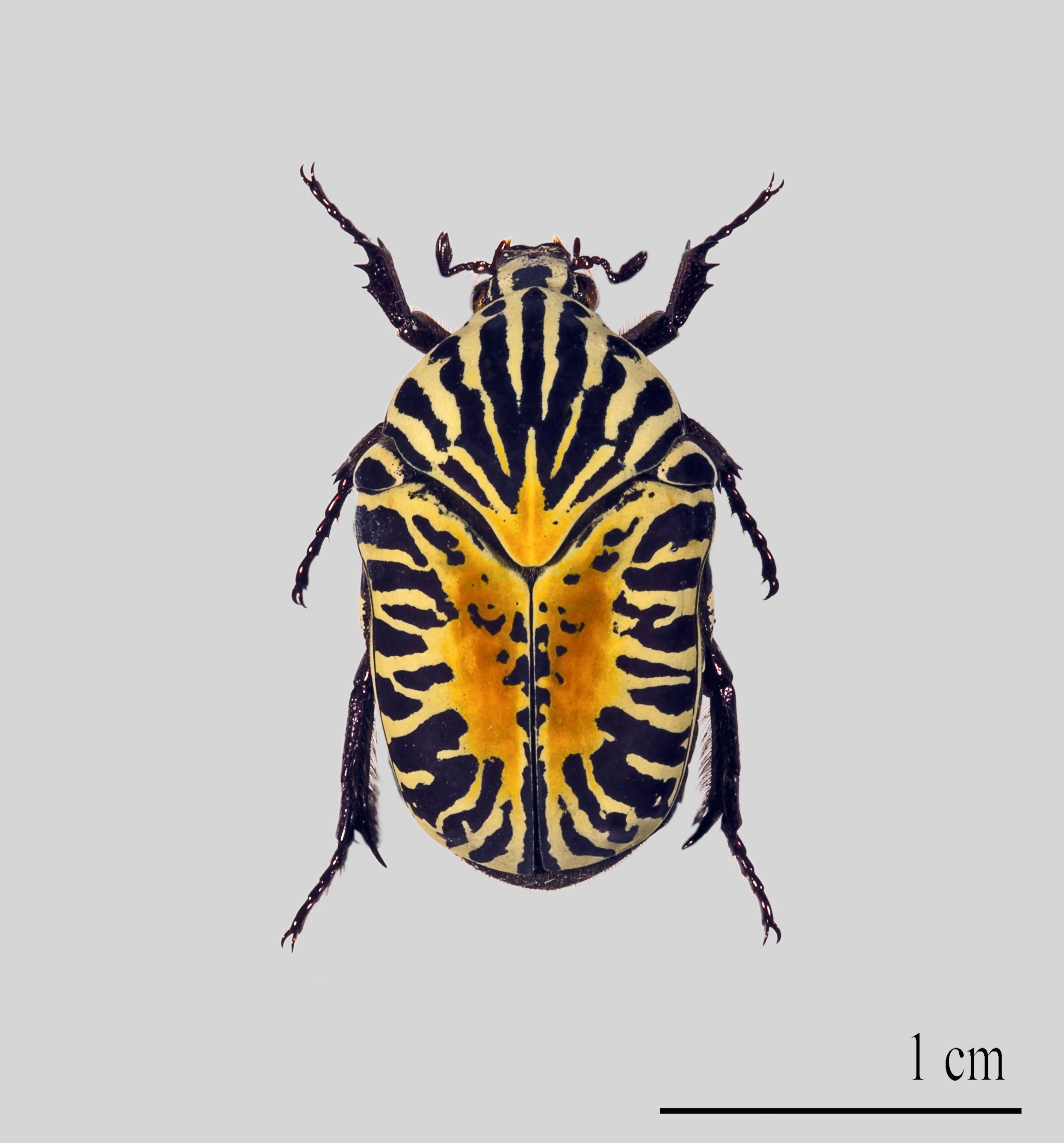 Female specimen Locality: Patla, Puebla, Mexico